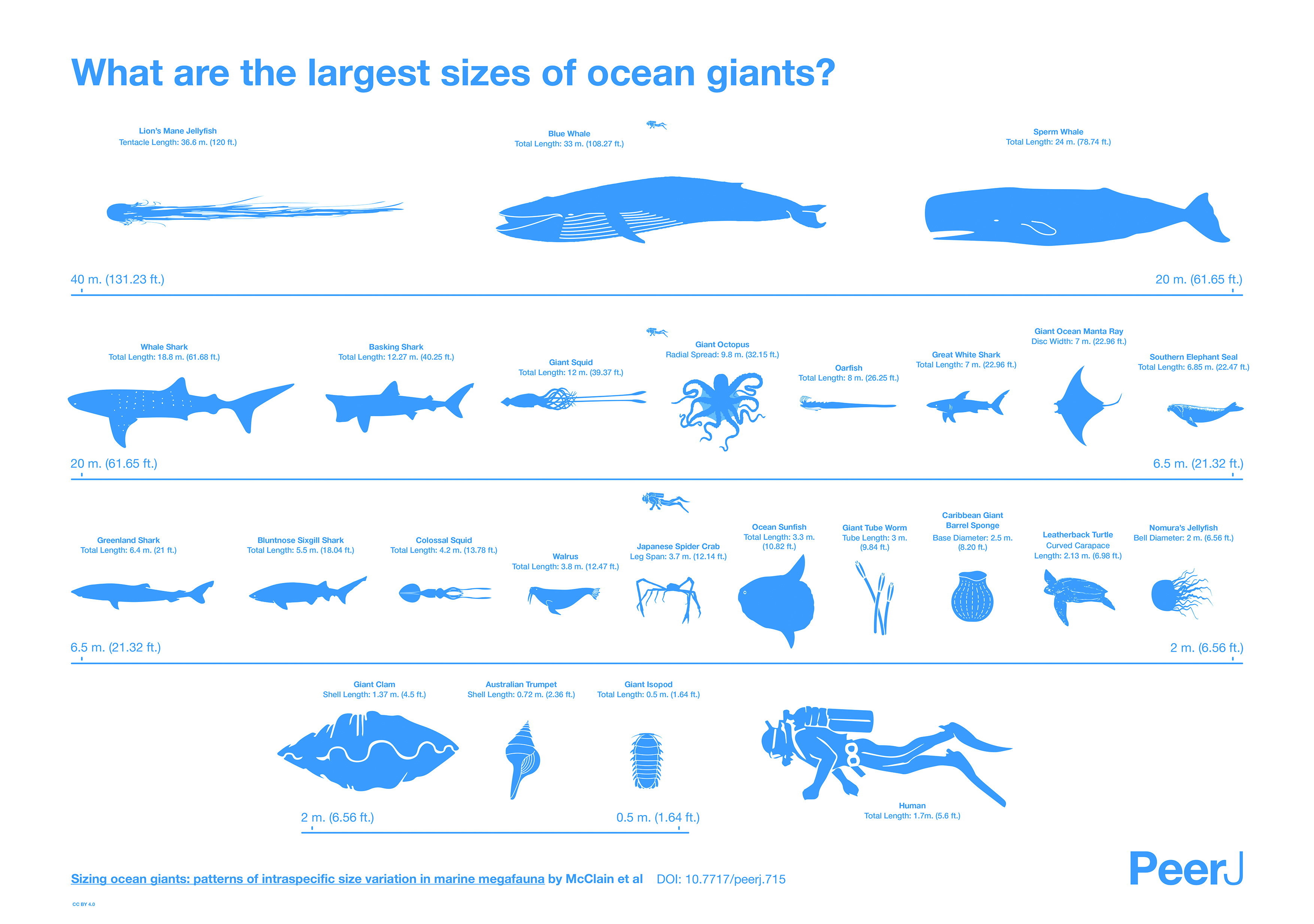 Infographic from 'Sizing ocean giants: patterns of intraspecific size variation in marine megafauna'.